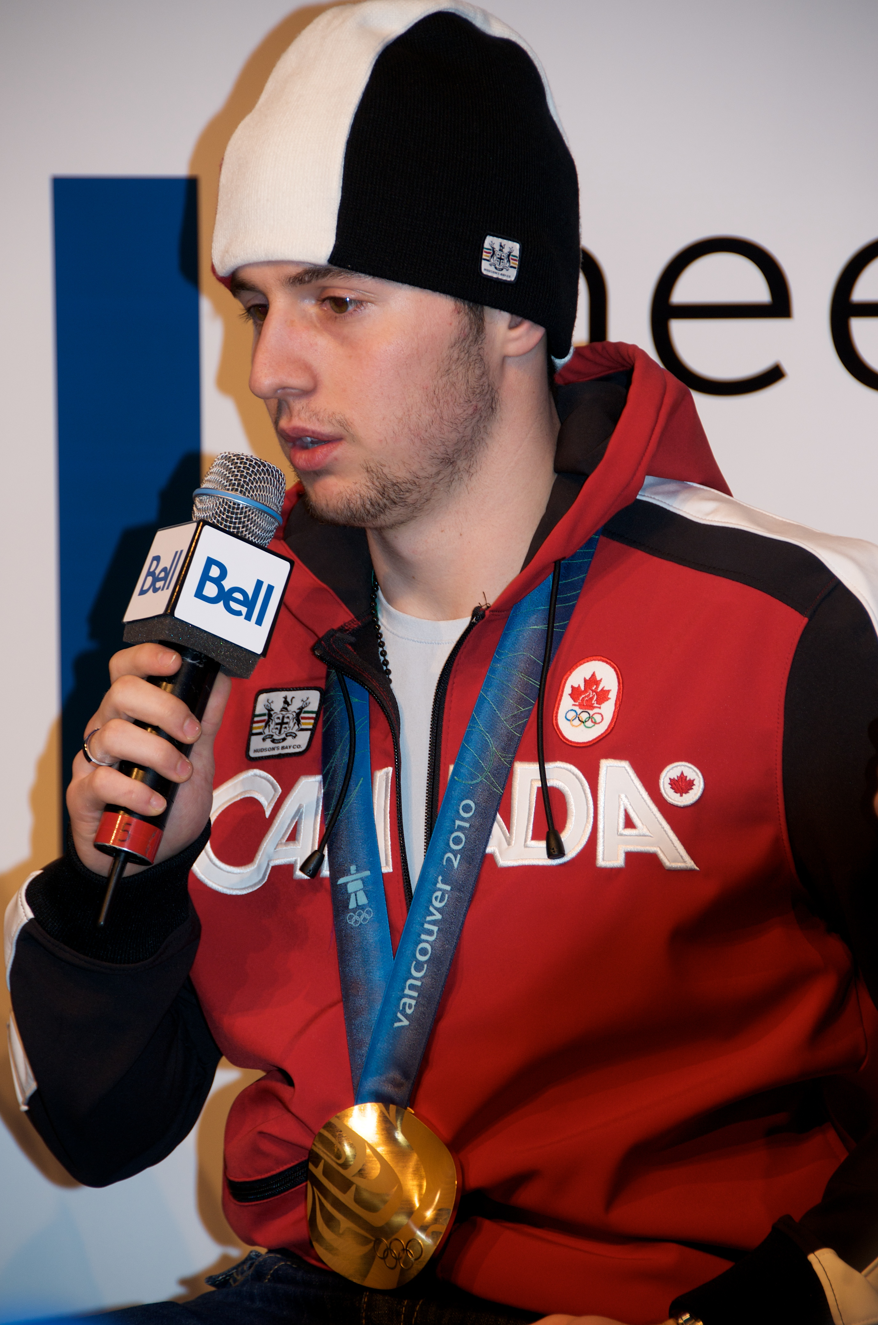 Alexandre Bilodeau with gold medal